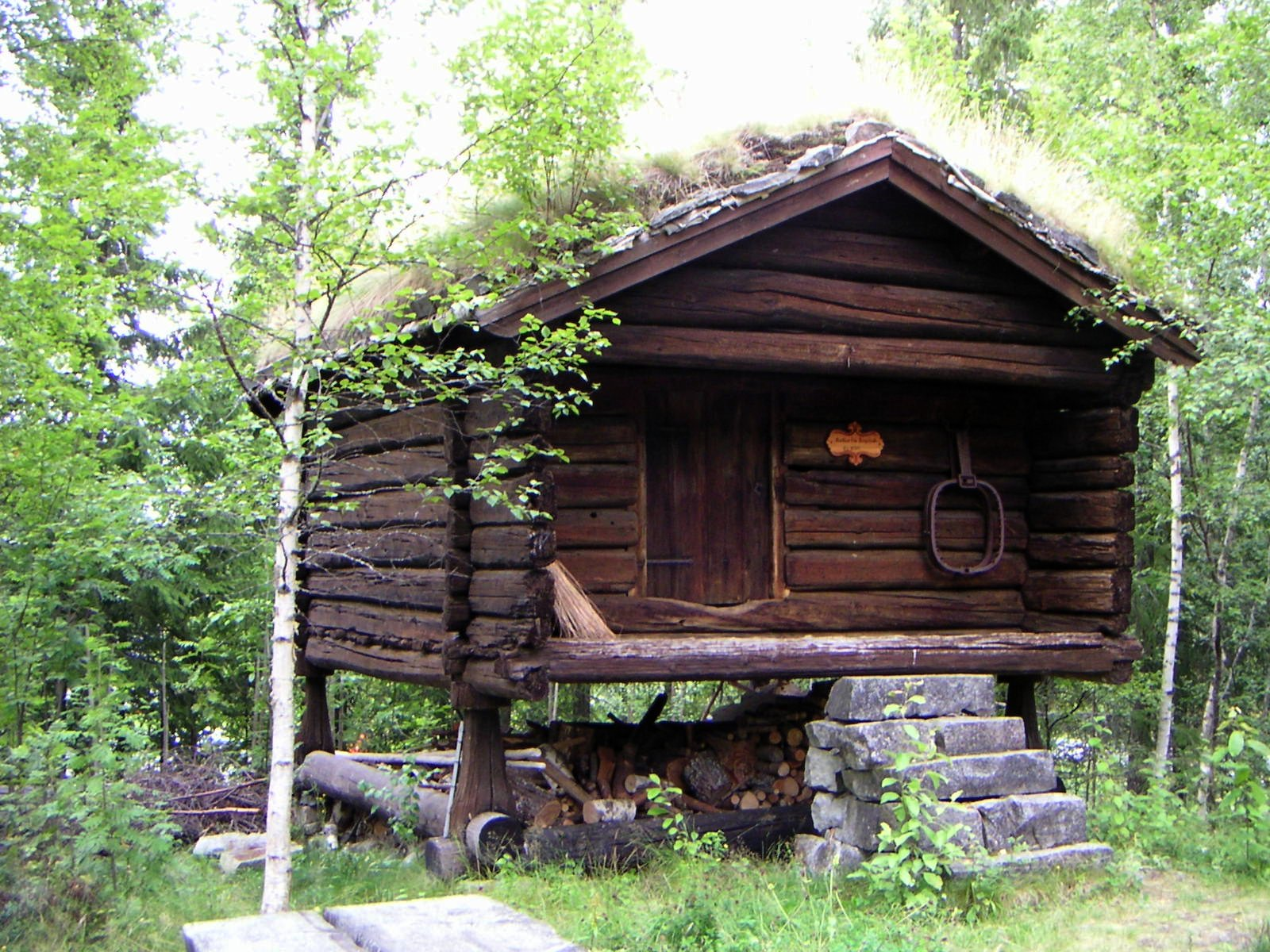 Storage house, — Stabbur from Bergsrud, about 1650, Hedal, Sør-Aurdal municipality